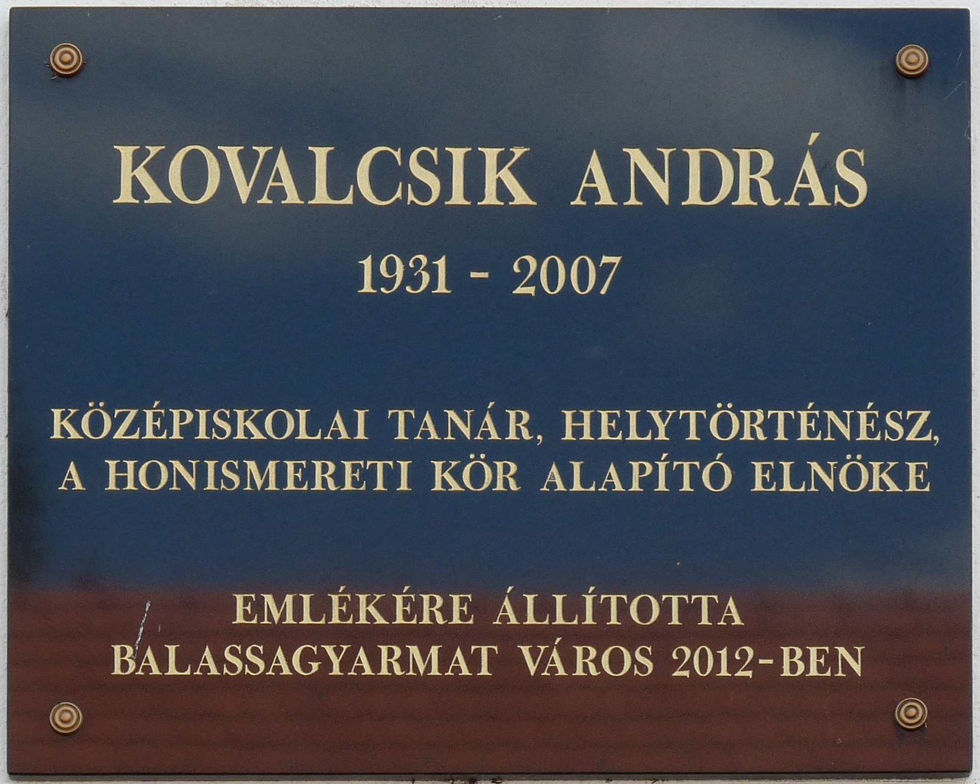 Commemorative plaque to Mr. András Kovalcsik (1931–2007) Hungarian high school teachers and local historian, Honorary citizen of Balassagyarmat It was affixed to the wall of his former home and unveiled on February 9, 2012. (Balassagyarmat, Rákóczi fejedelem Street Nr 107)